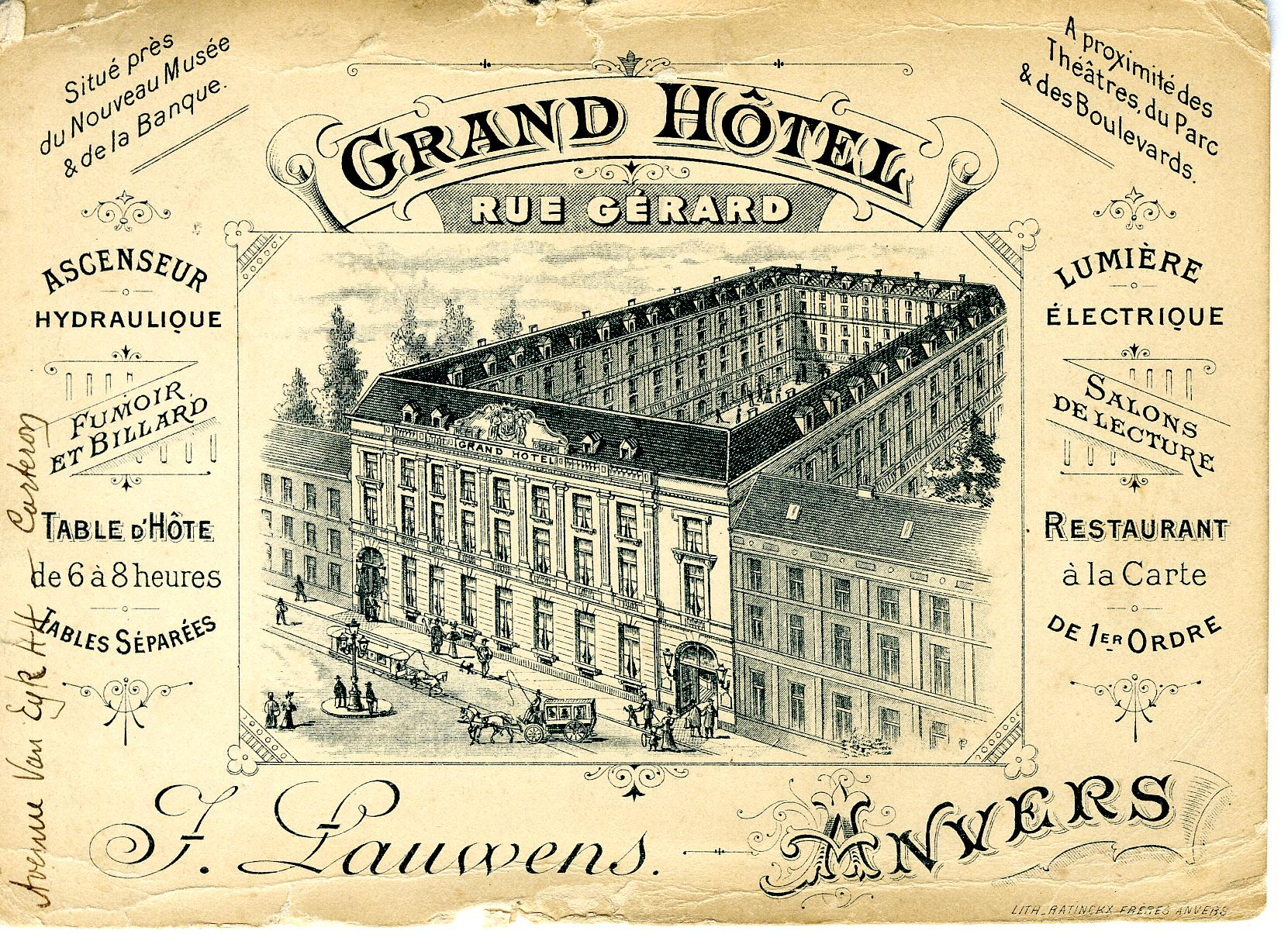 Postcard Grand Hôtel Rue Gérard Antwerp